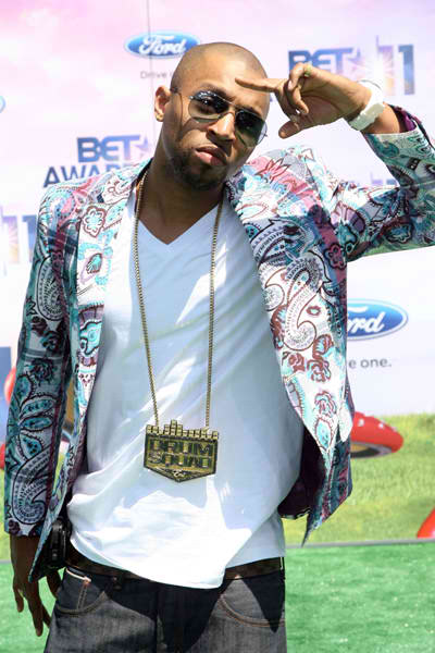 Drumma Boy attends the 2011 BET Awards in Los Angeles